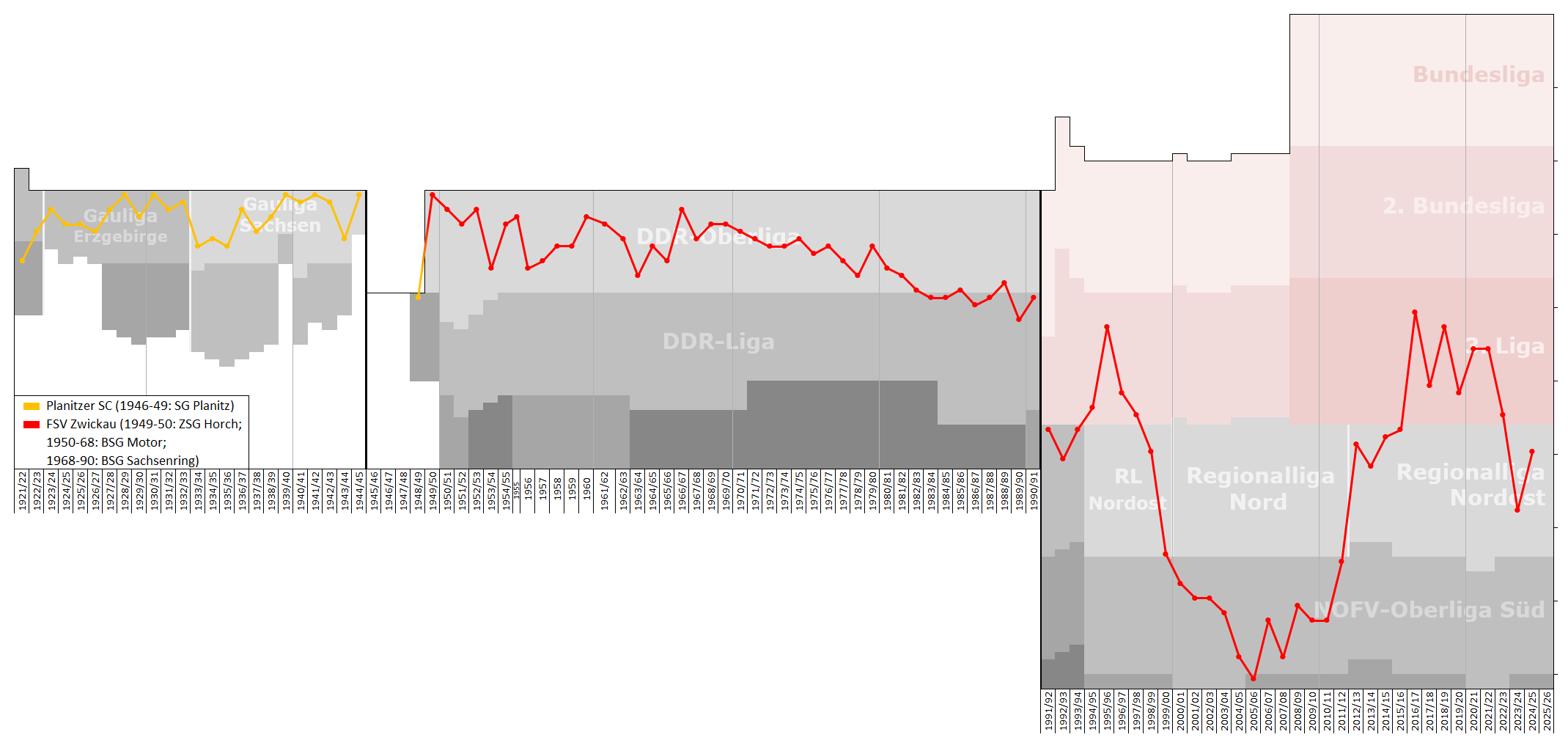 Chart of end-season table positions of FSV Zwickau in the football league system of Germany. Data source: RSSSF, wikipedia, f-archiv.de, fussball.de